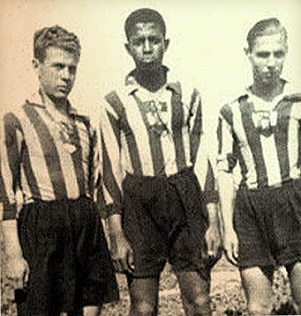 Fercani Bey (Sener) Turkish footballer of African descent (1910s)